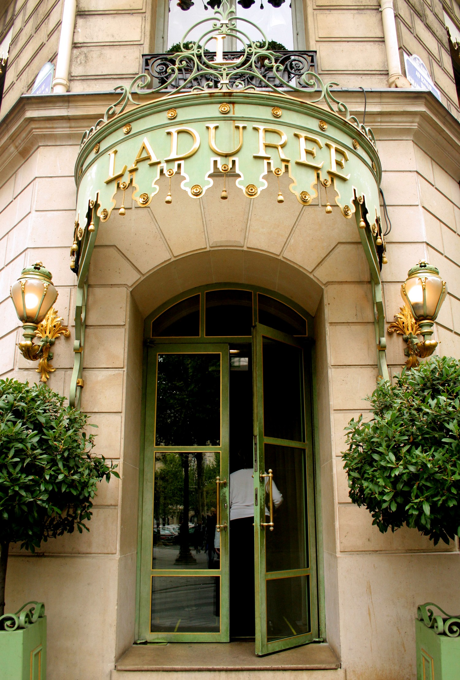 Ladurée pastry shop with celadon green façade at Champs-Élysées. Author: Robyn Lee (user roboppy) Date: September 17, 2006 URL: Uploaded by author